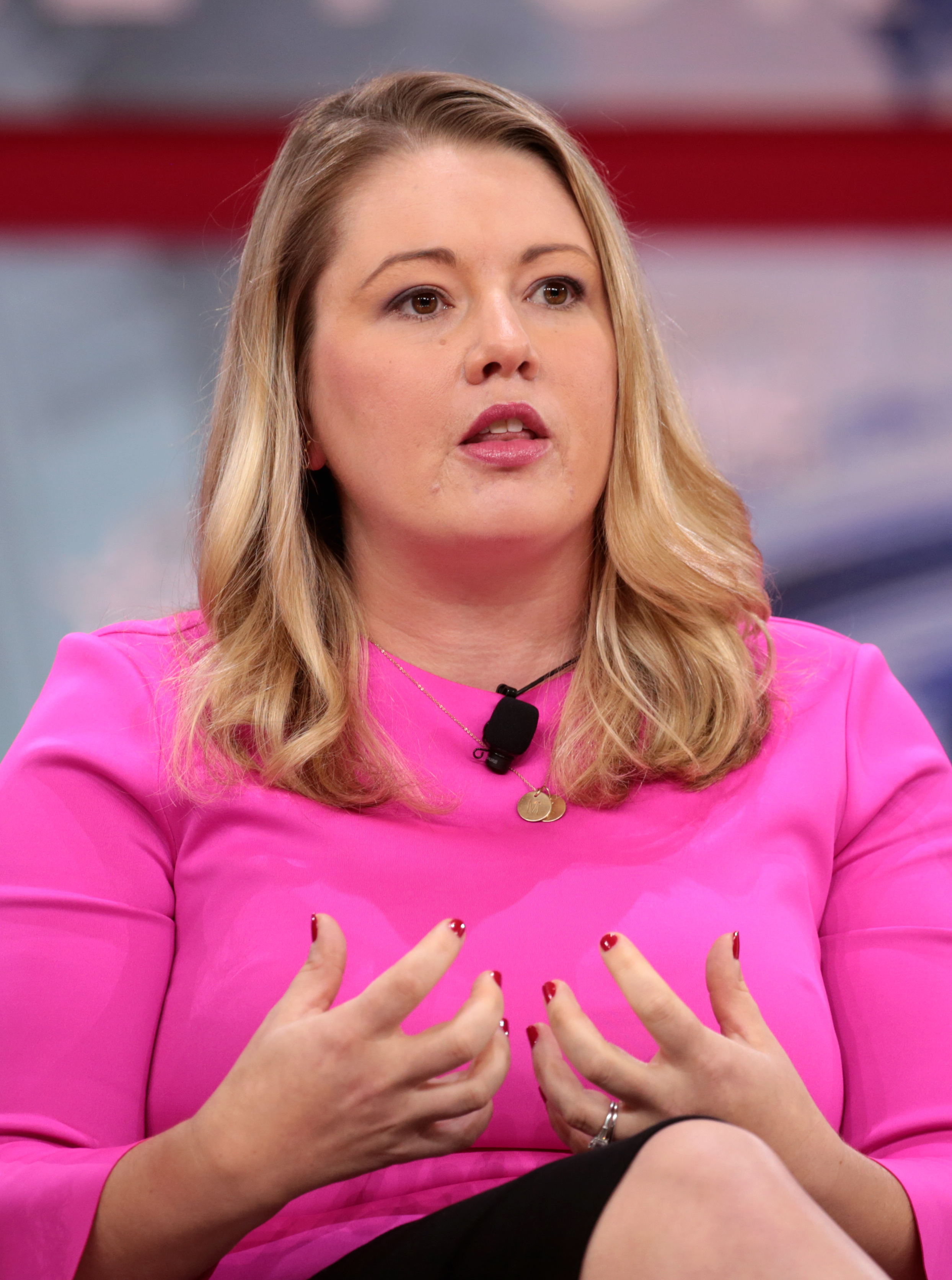 Kayla Kessinger speaking at the 2018 CPAC in National Harbor, Maryland.